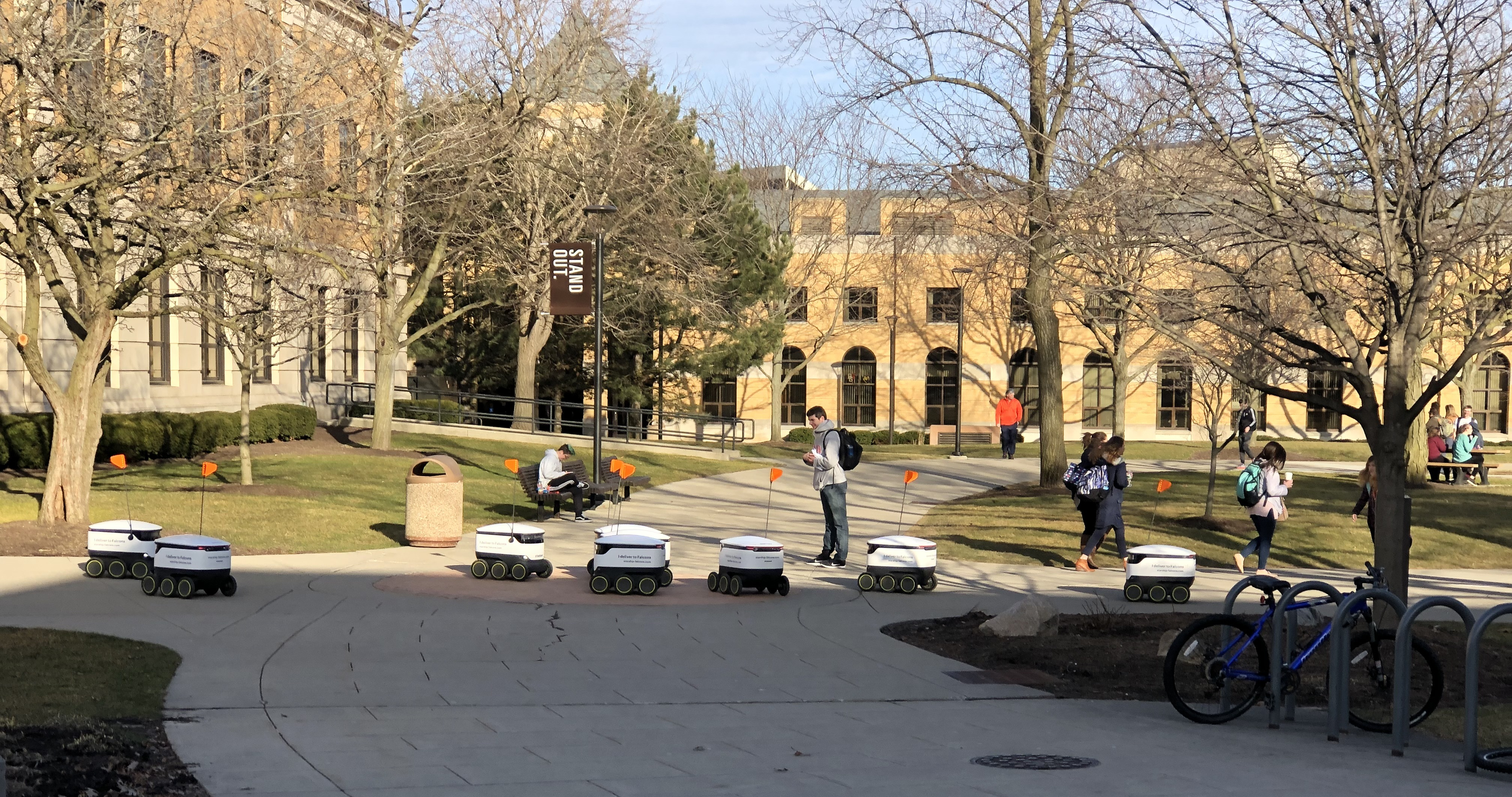 Autonomous Delivery Vehicle Pileup. The robots are prevented from moving due to their mutual proximity.